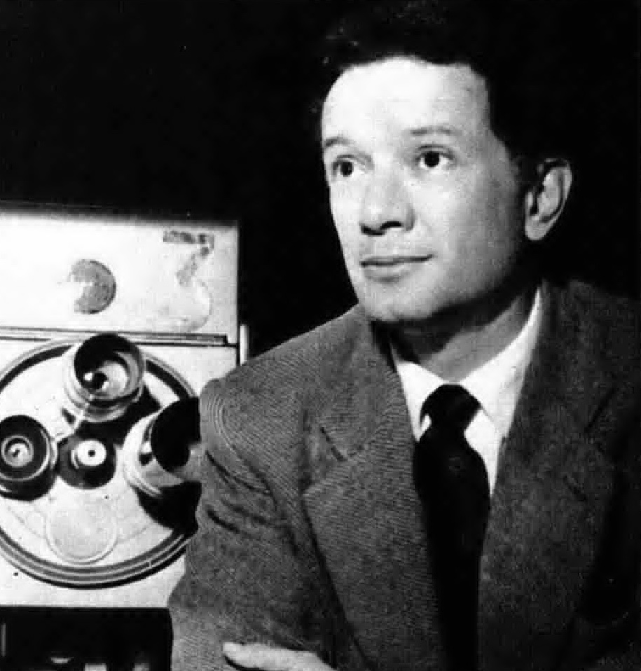 Italian actor and director Leonardo Cortese